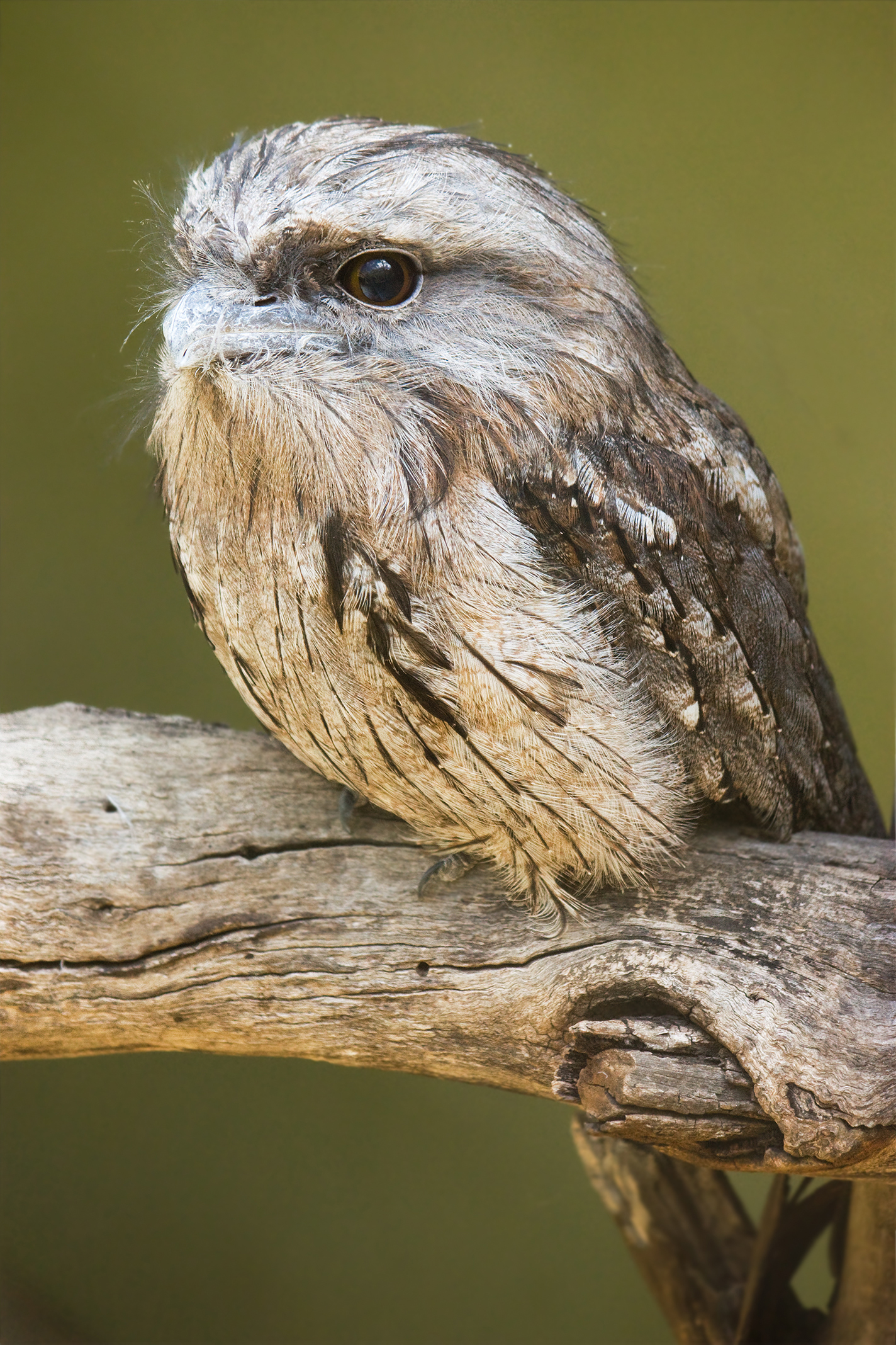 Tawny Frogmouth (Podargus strigoides), Bonorong Wildlife Park, Tasmania Australia